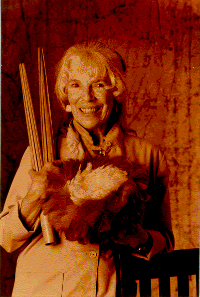 Photo of Joann W. Kealiinohomoku, holding hula implements: On left: `Uli`Uli, split bamboo length used for striking rhythmic sounds. On right, Pu `ili - hula implement: feathered gourd rattle.